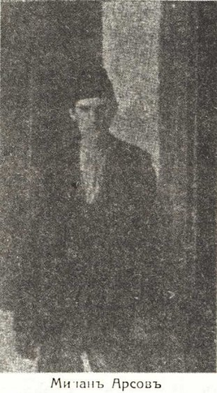 Portrait of Milan Arsov, member of IMARO and the terrorist group of the "Gemedjias", who blow up Thessaloniki in 1903.